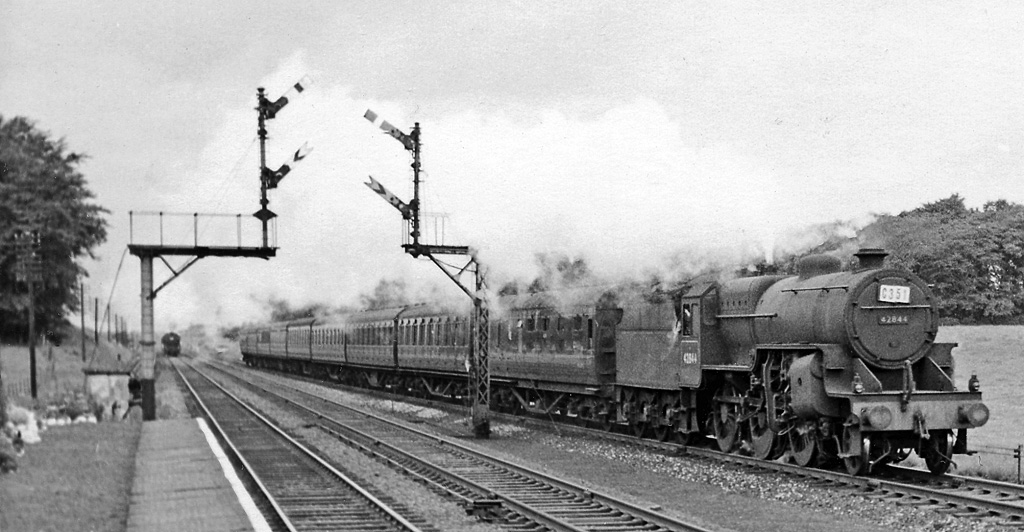 Another race - perhaps - of Up trains from Blackpool and Fleetwood at Salwick Station. View westward, towards Kirkham and Blackpool/Fleetwood; ex-Preston & Wyre Joint line. This is the 10.20 Fleetwood to Manchester express, with Hughes/Fowler 5P4F 2-6-0 No. 42844; the other train is somewhat behind. See also SD4632 : Up expresses racing at Salwick etc.